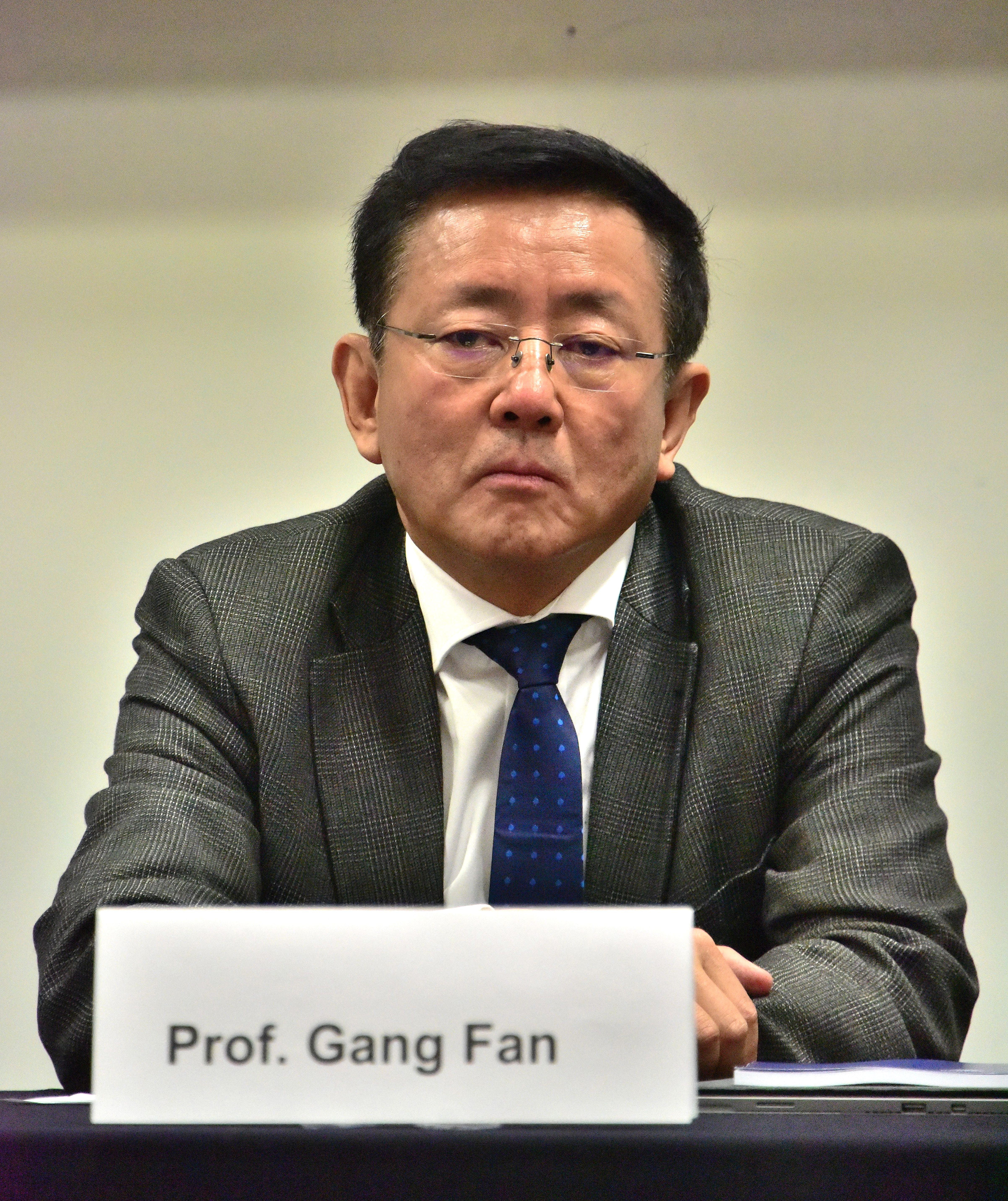 Professor Gang Fan from Peking University HSBC Business School and National Economic Research Institute, Beijing, during the conference "In Quest of a Better World: Economics and Politics" at the Kozminski University in Warsaw